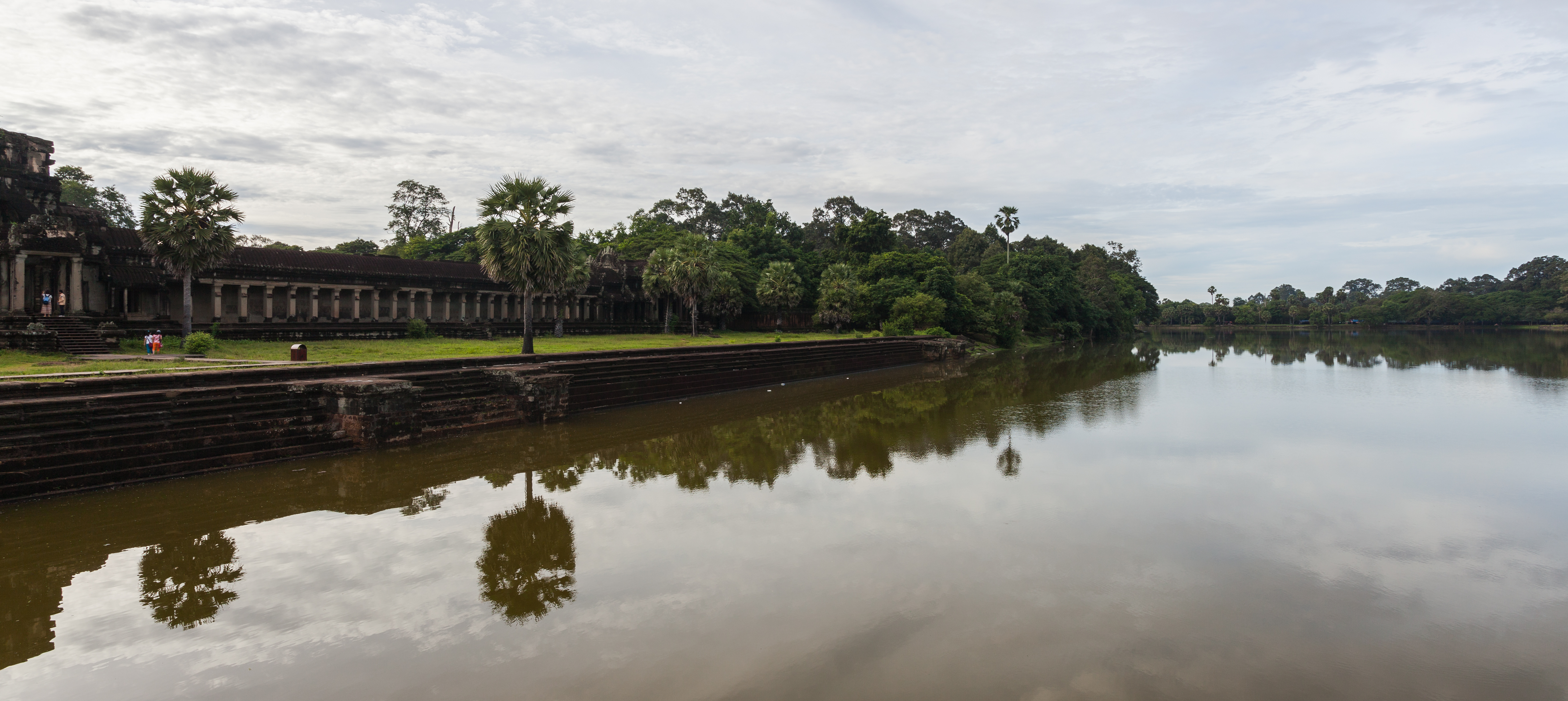 Angkor Wat, Cambodia